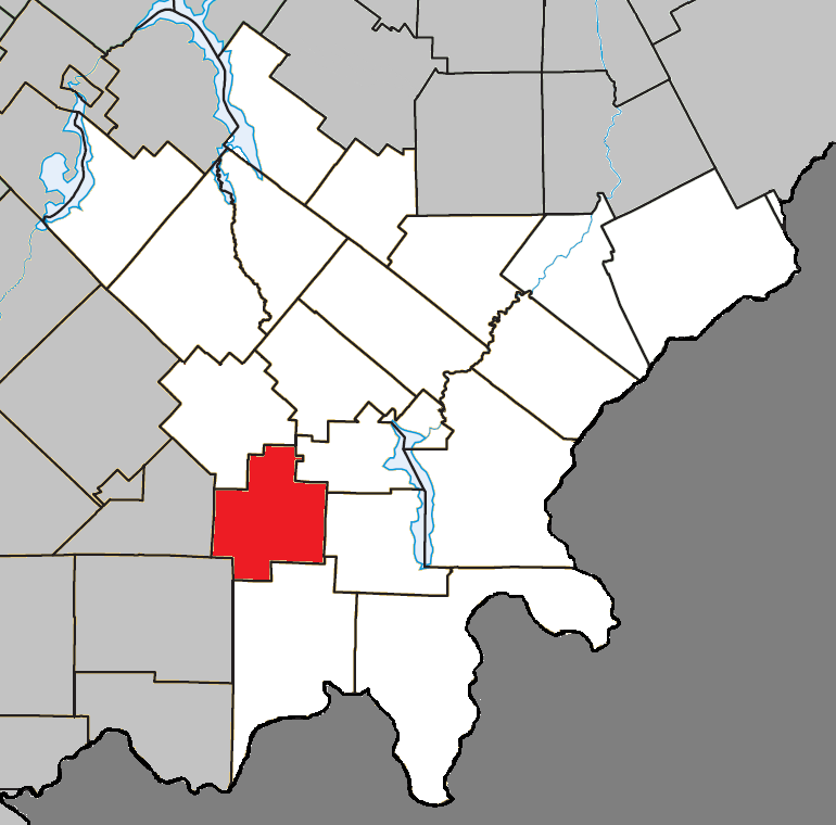 Location of Val-Racine, Quebec within Le Granit Regional County Municipality.